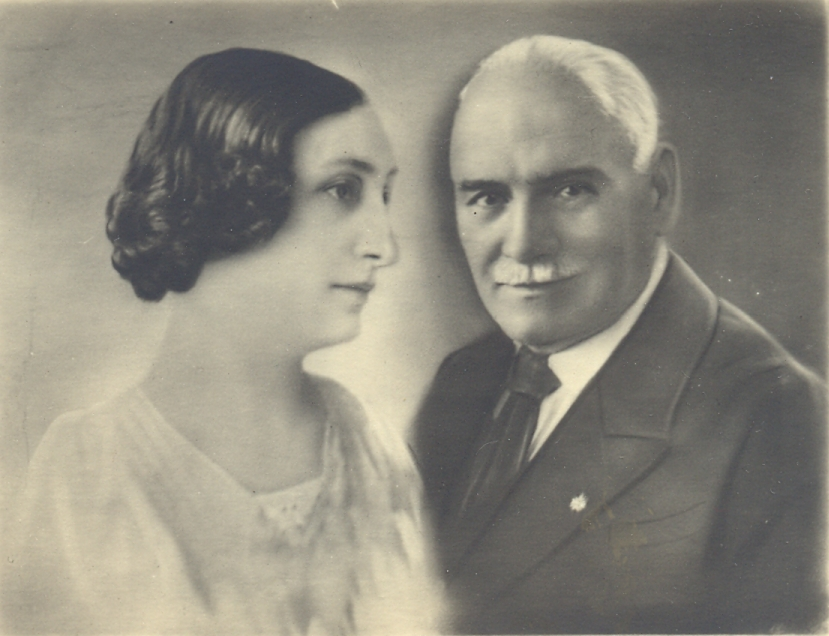 The Bulgarian actress Roza Popova (Ruska Manuilova) with her husband the children writer and poet Chicho Stoyan (Stoyan Popov)